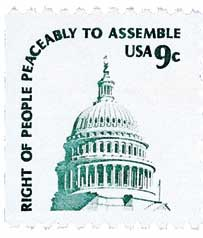 This stamp was issued March 11, 1977. The image is in the public domain.